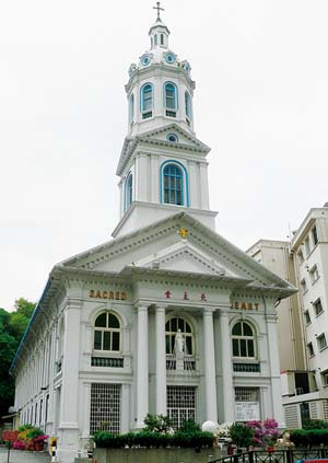 SHC exterior